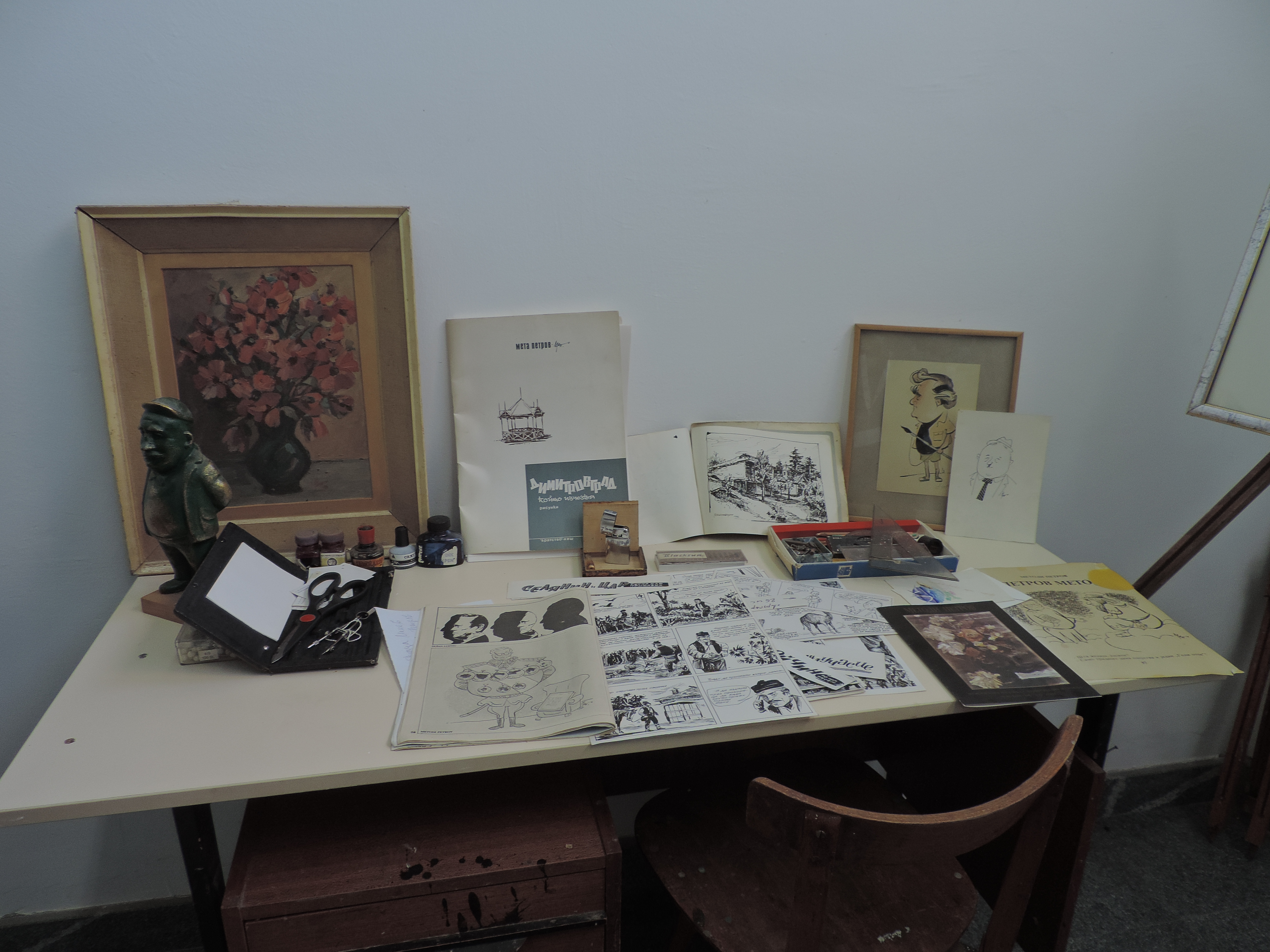 Metodi Petrov Galery, Dimitrovgrad, Serbia